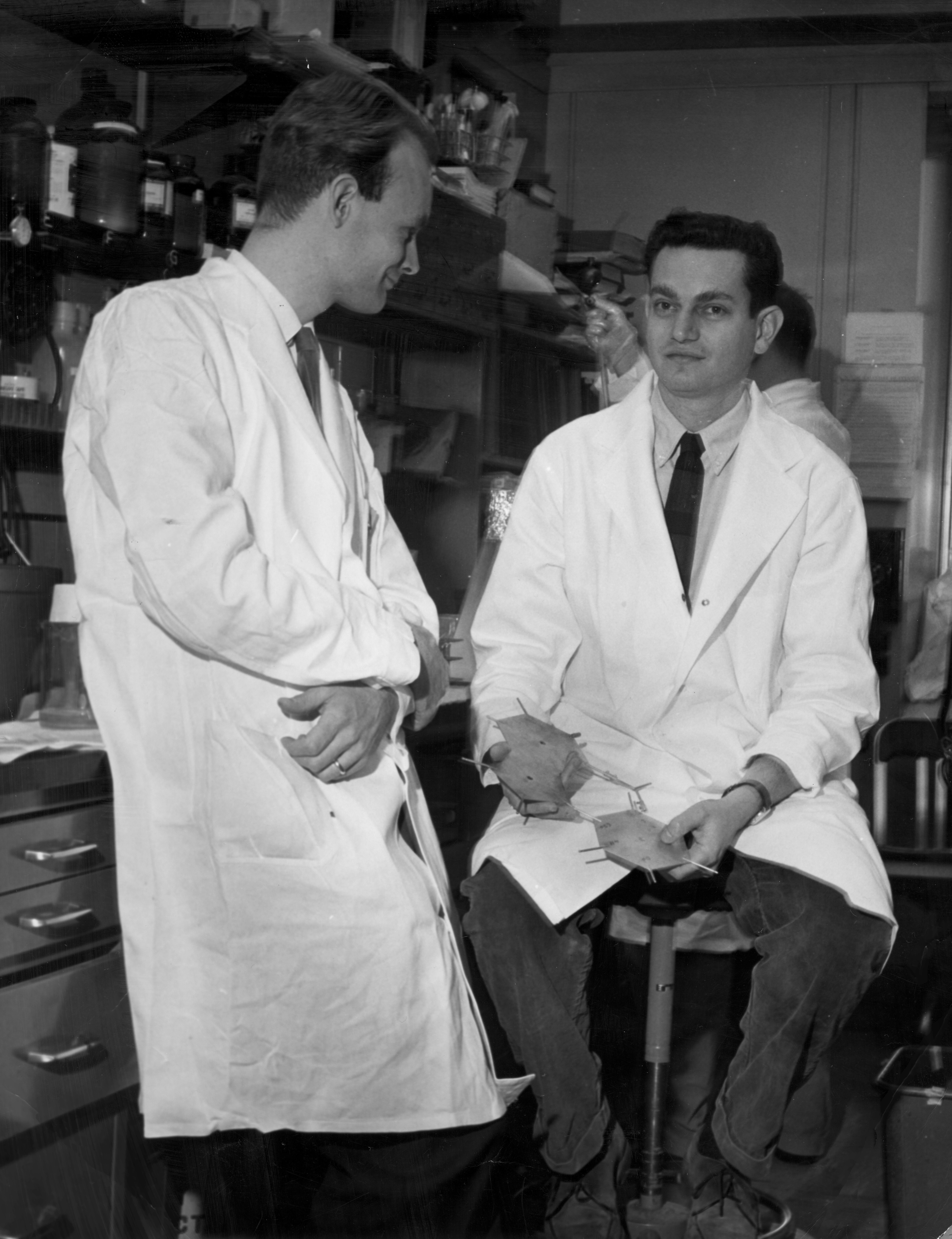 Heinrich Matthaei was Marshall Nirenberg's first postdoctoral researcher. Their collaboration led to the now famous protein synthesis poly-U experiments and the first clue to the genetic code.